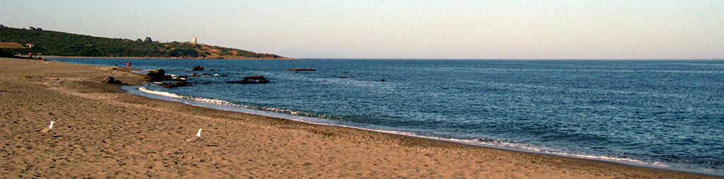 La Alcaidesa in southern spain near gibraltar and Med